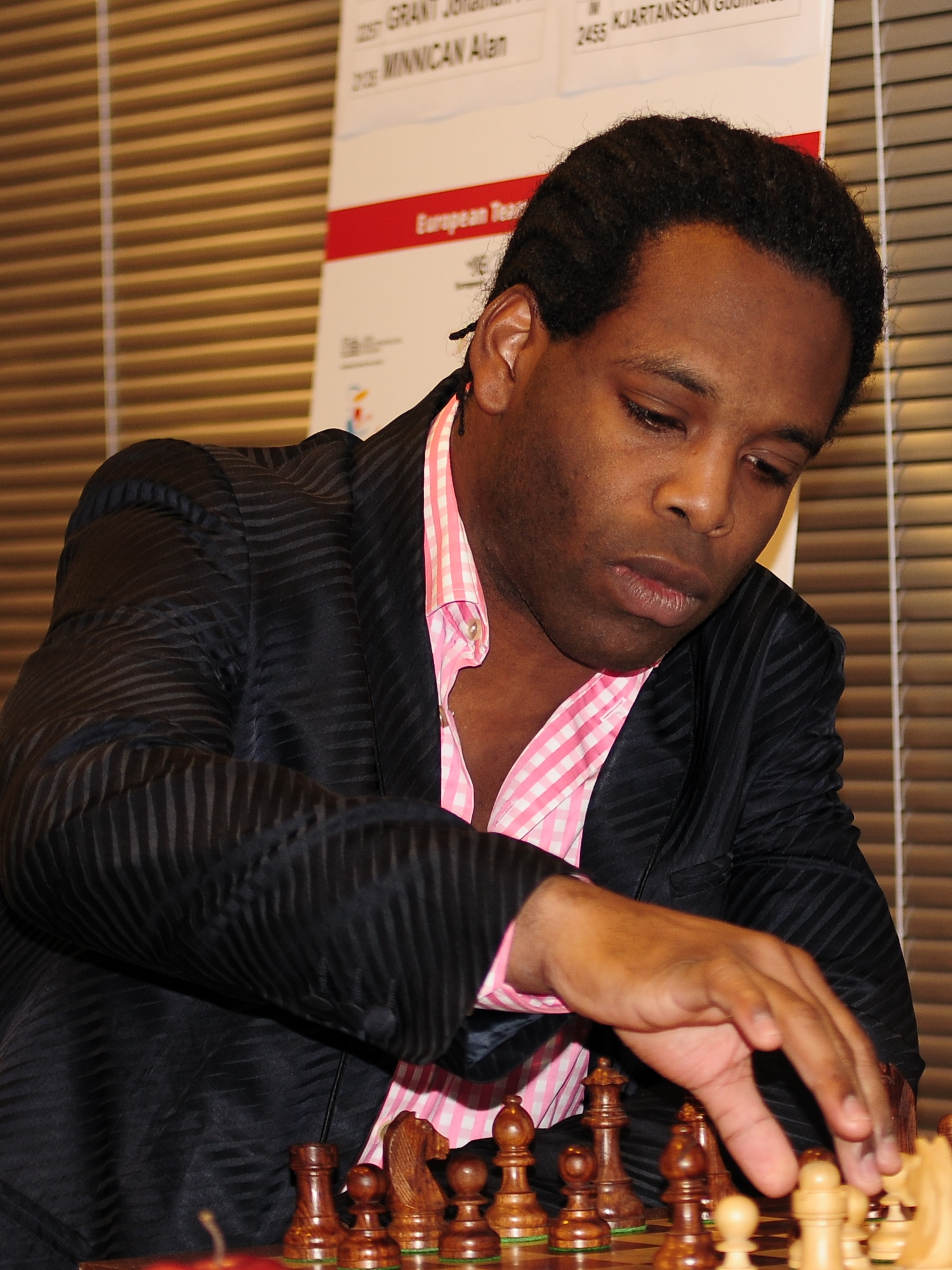 GM Pontus Carlsson, European Chess Team Championship Warsaw 2013